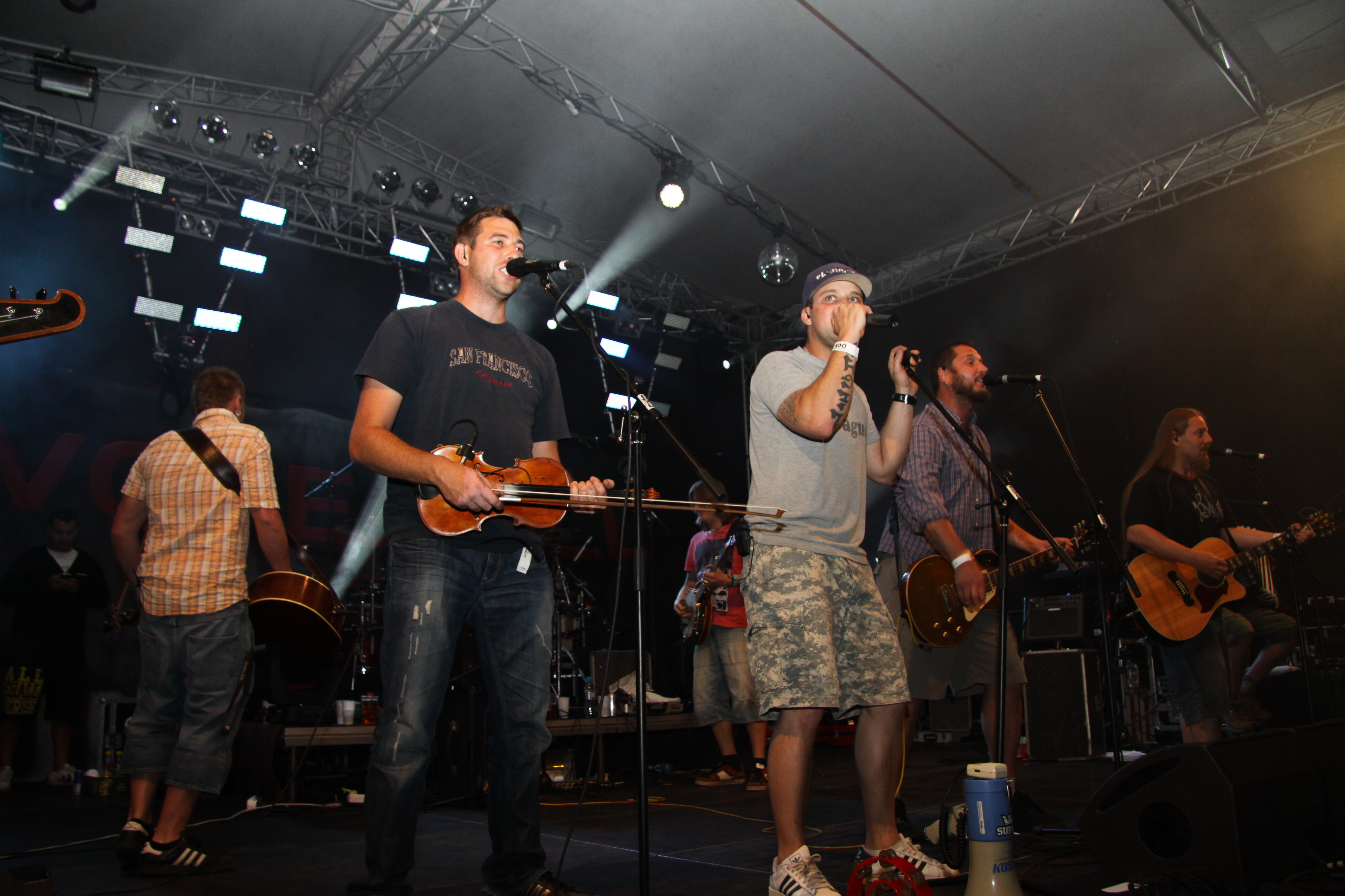 JCzech music band Divokej Bill during Písek's celebration "Dotkni se Písku" in 2011, Písek District, Czech Republic Personality rights warningAlthough this work is freely licensed or in the public domain, the person(s) shown may have rights that legally restrict certain re-uses unless those depicted consent to such uses. In these cases, a model release or other evidence of consent could protect you from infringement claims.